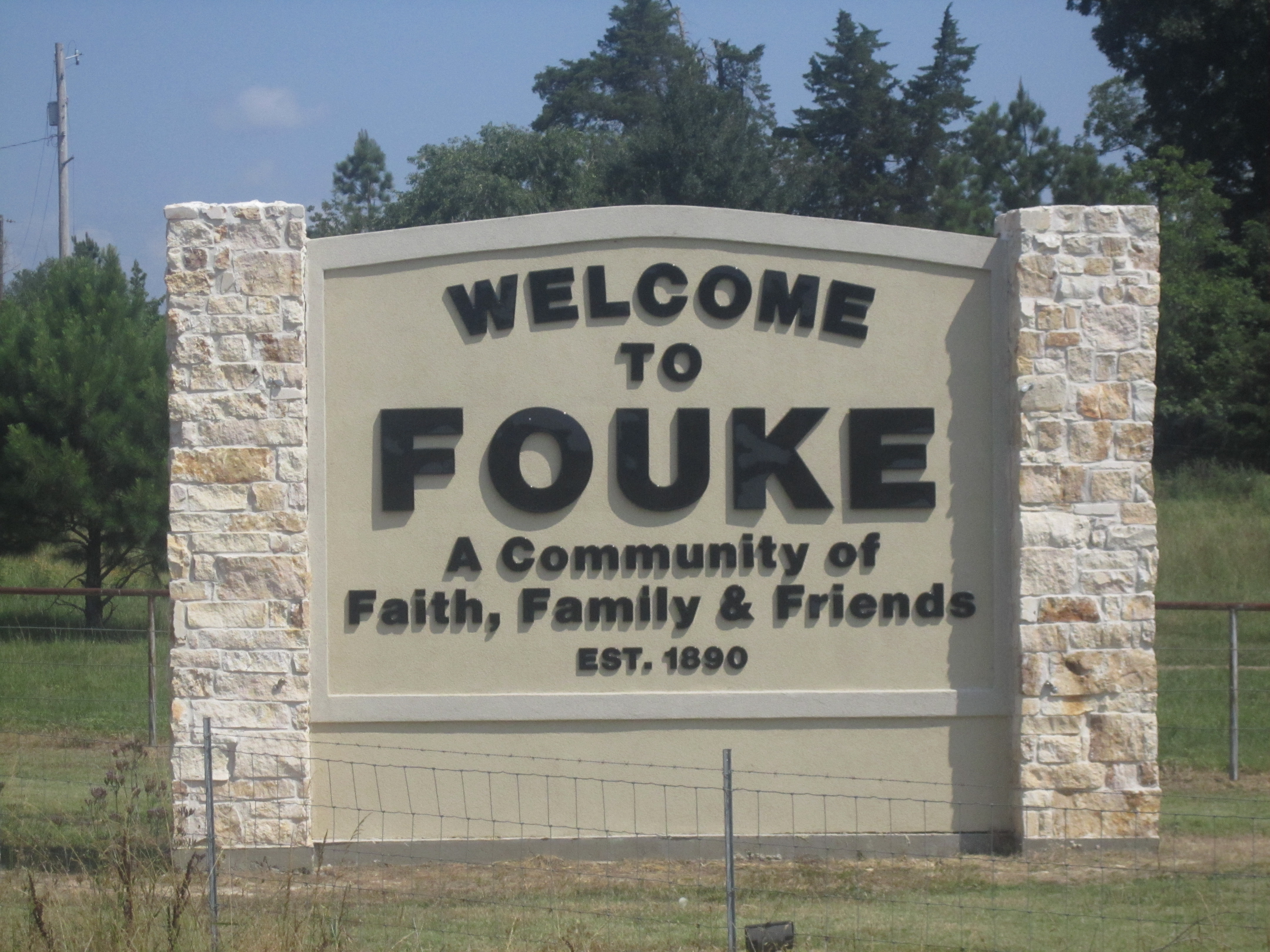 I took photo with Canon camera on June 9, 2012, in Fouke, AR.Billy Hathorn (talk) 02:57, 28 June 2012 (UTC)